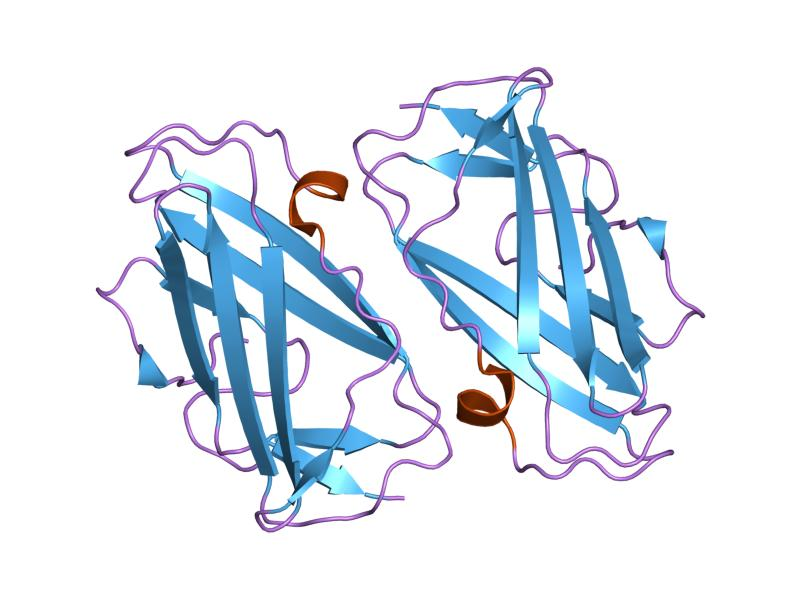 Cartoon representation of the molecular structure of protein registered with 1ktj code.